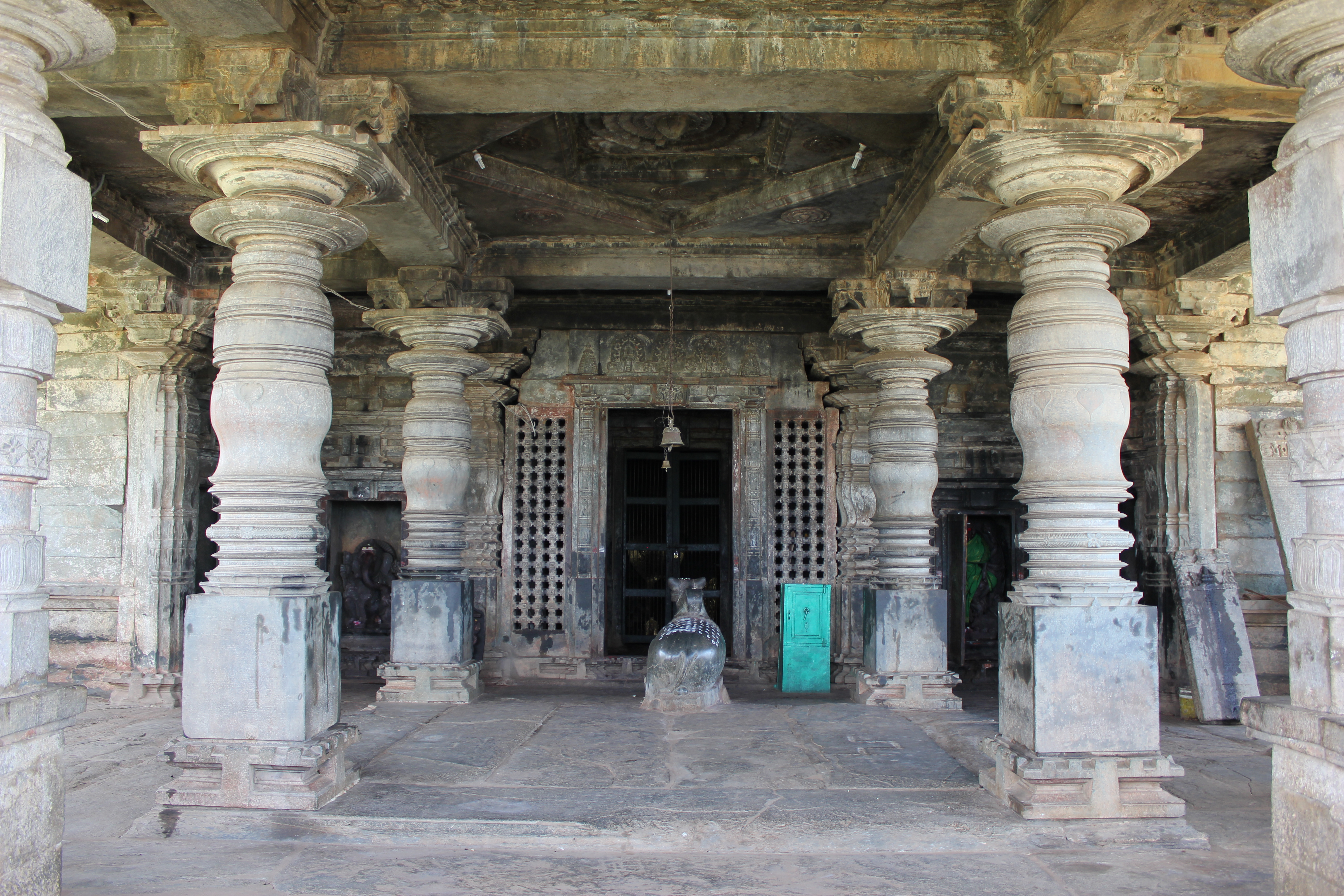 This photograph was taken by me at the Galageshvara temple (also spelt Galageshwara or Galagesvara) at Galaganatha, Haveri district, Karnataka state, India. The temple was built in the early 11th century during the rule of Western Chalukya king Jayasimha II.